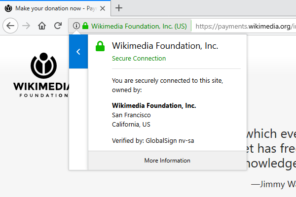 Visit Wikimedia donation page with extended validation certificate in firefox